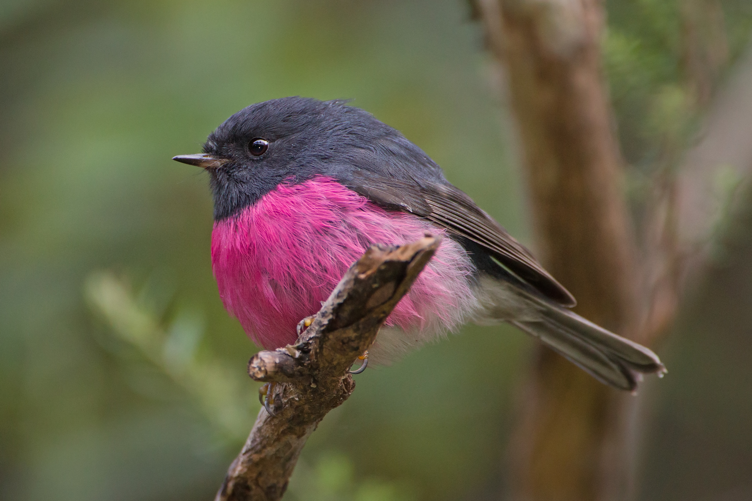 Pink Robin (Petroica rodinogaster), Myrtle Forest, Collinsvale, Tasmania, Australia